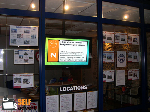 POS (point-of-sale display) : audiovisual communication, digital signage